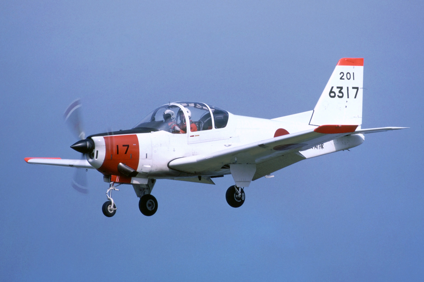 Ozuki, November 1994. A nice little base is Ozuki, where future JMSDF-pilots receive their first flying lessons.